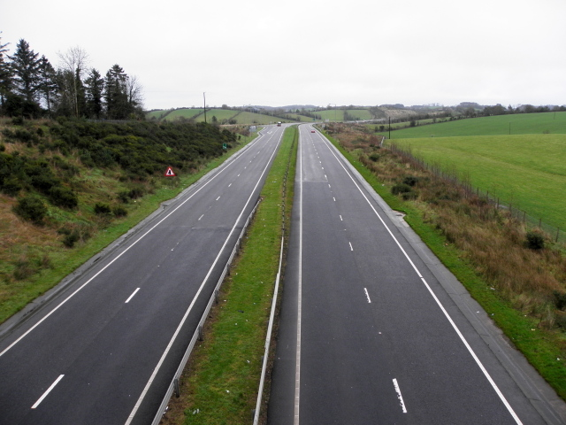 A4 dual carriageway, Cabragh